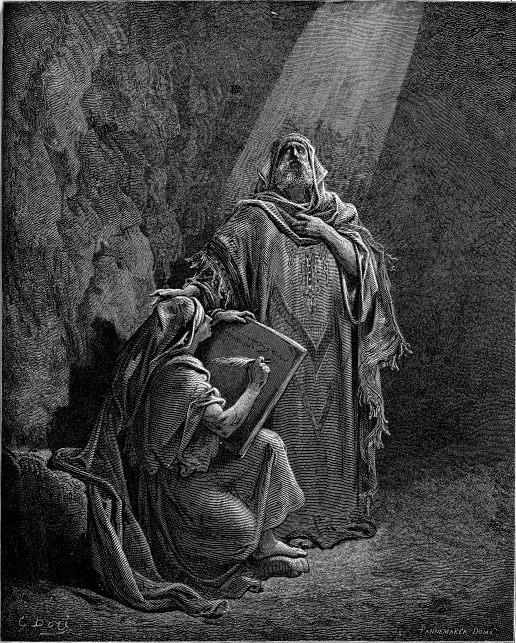 Baruch Writing Jeremiah's Prophecies